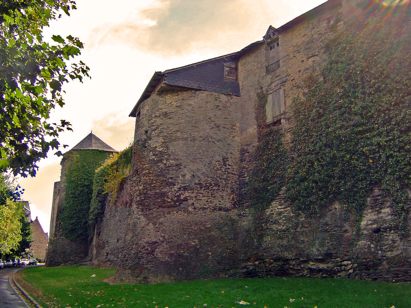 Ramparts of Vitré (13th century)